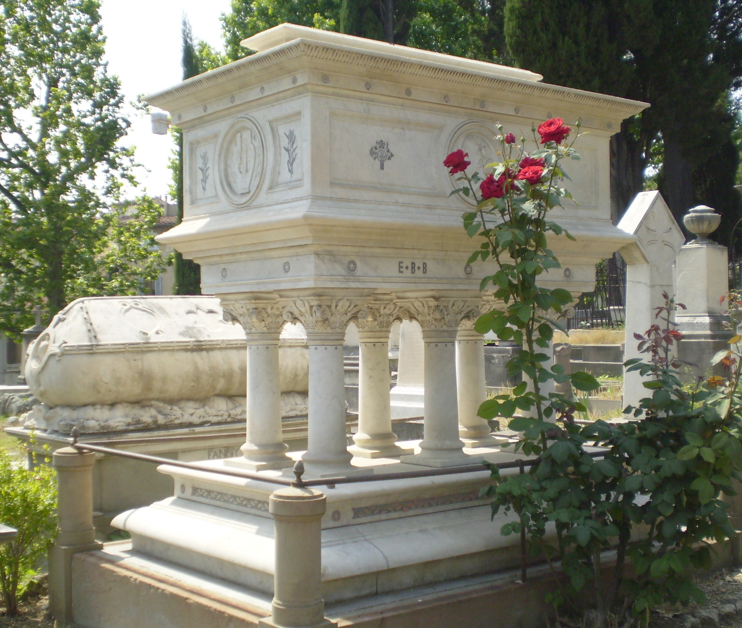 Tomb of Elizabeth Barrett Browning on the Cimitero degli Inglesi, Florence.